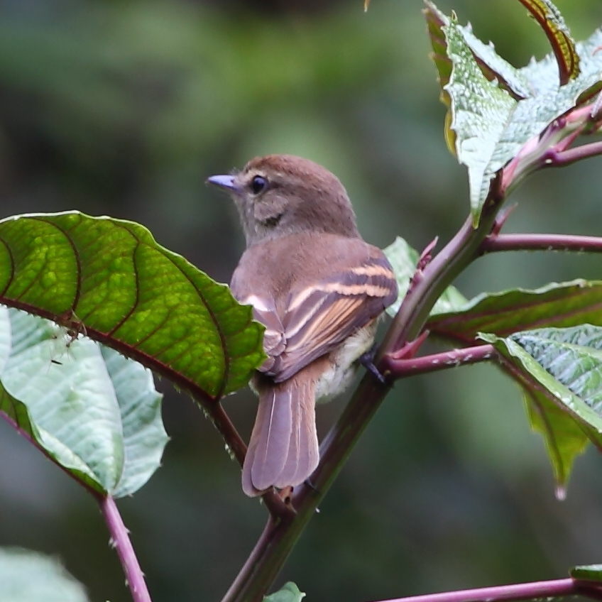 Euler's Flycatcher at Bertioga - SP - Brazil